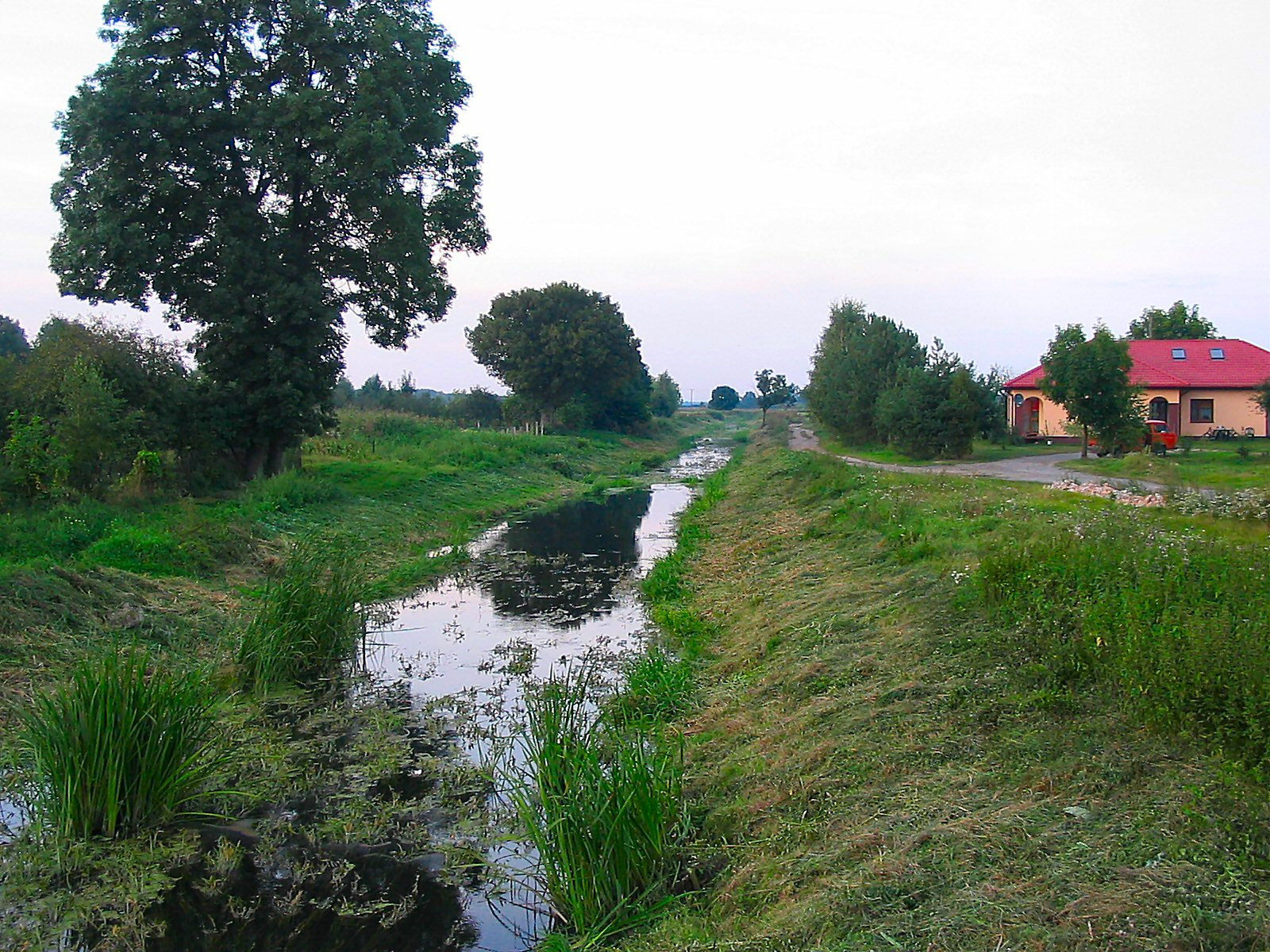 River Huczwa in Tyszowce